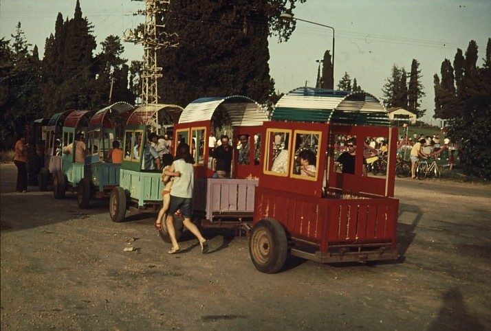 Gan - Samuel - Independence Day 1980-85, Jewish holidays